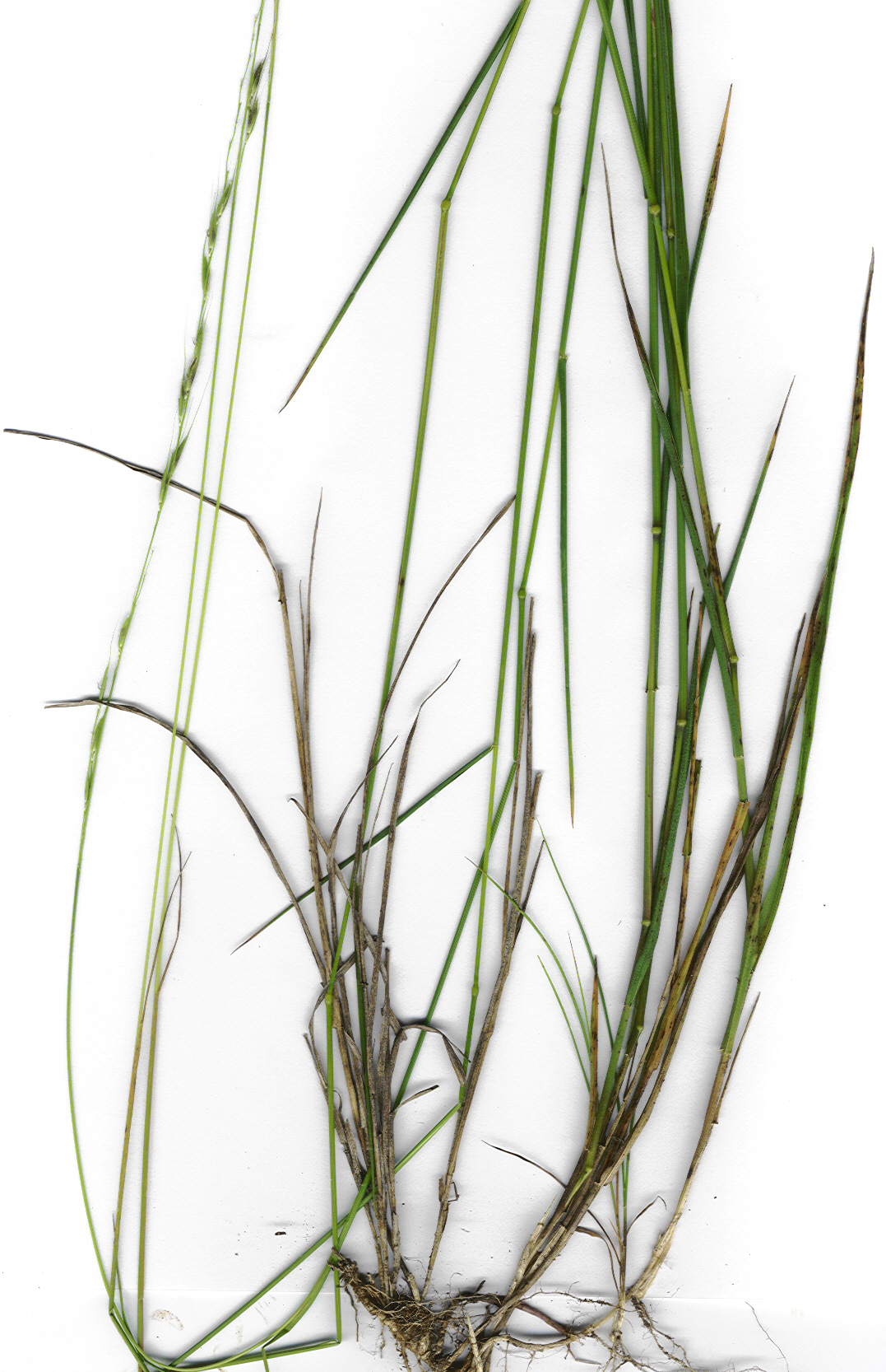 Ehrharta stipoides (plant). Location: Maui, Waiakoa rd Kula